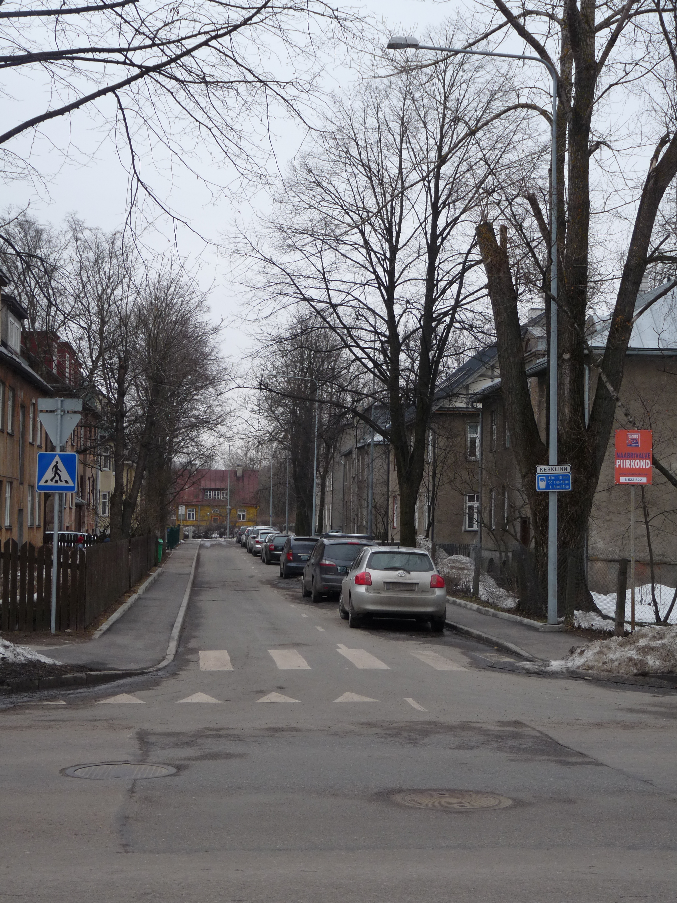 Kauna street in Tallinn